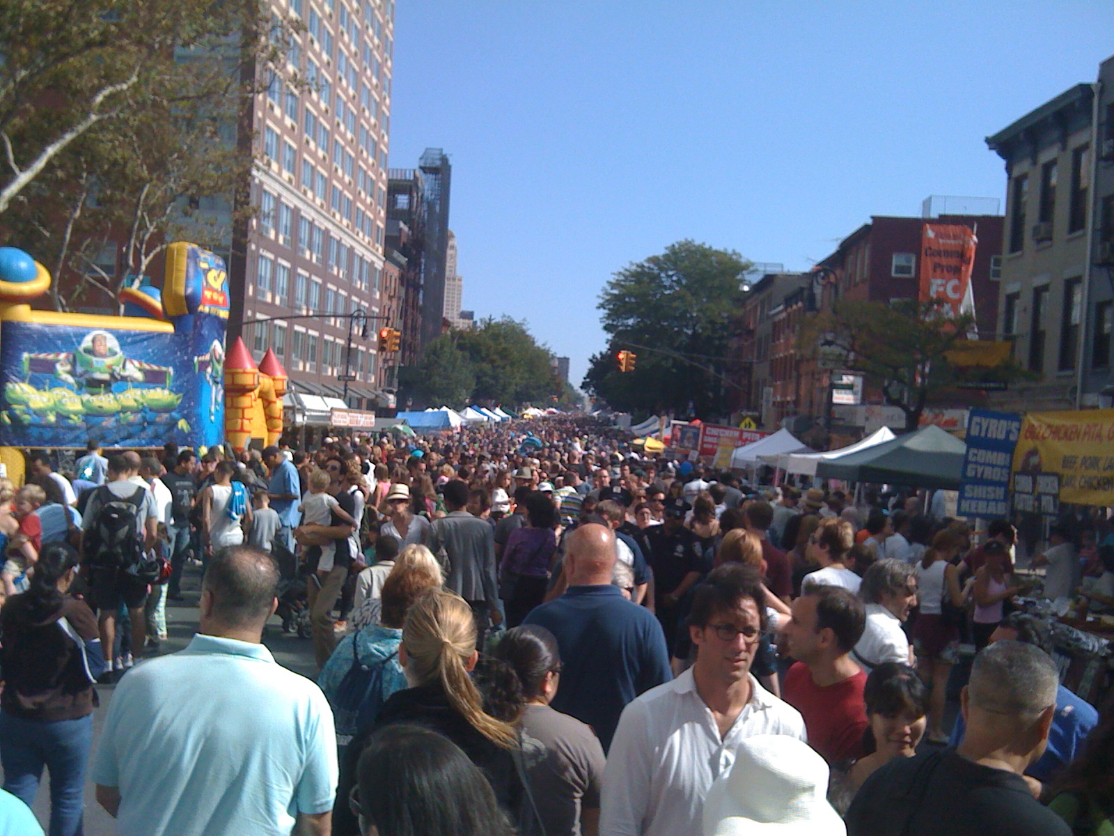 From the 2009 Atlantic Antic, at Atlantic Avenue and Court Street in Brooklyn, New York